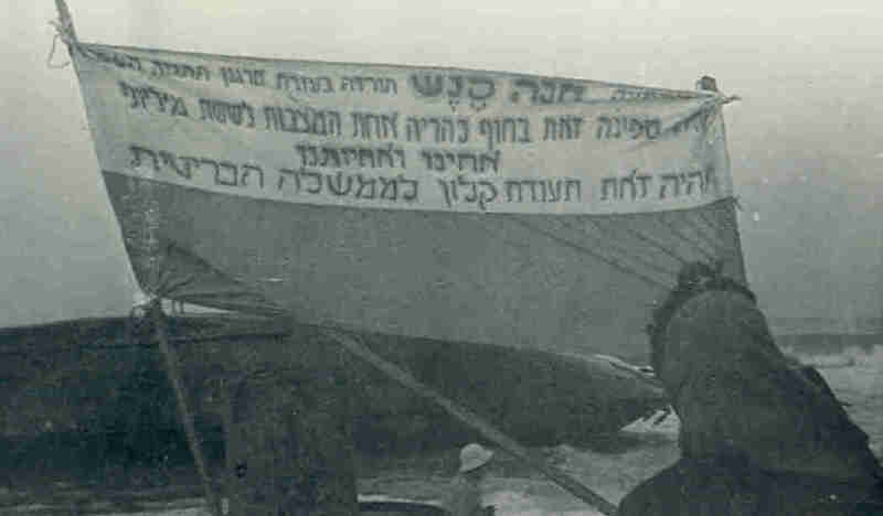 Poster of Hannah Senesh ship illegal immigrants, Immigration to Israel